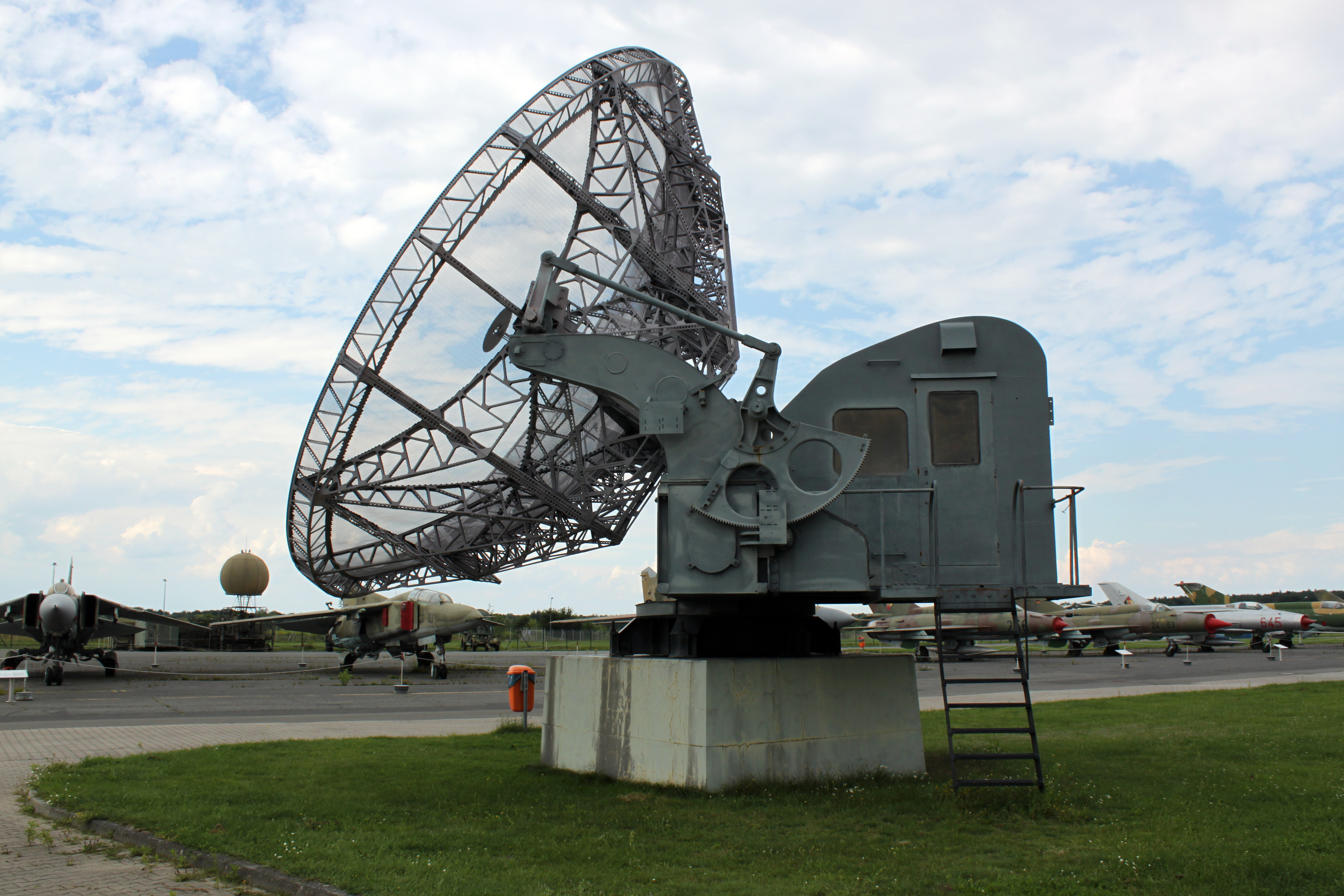 Air Force Museum Berlin-Gatow: German Radar Wurzburg Riese (FuMG 65); ITU-classificatio: Radiolocation land station in the radiolocation service.